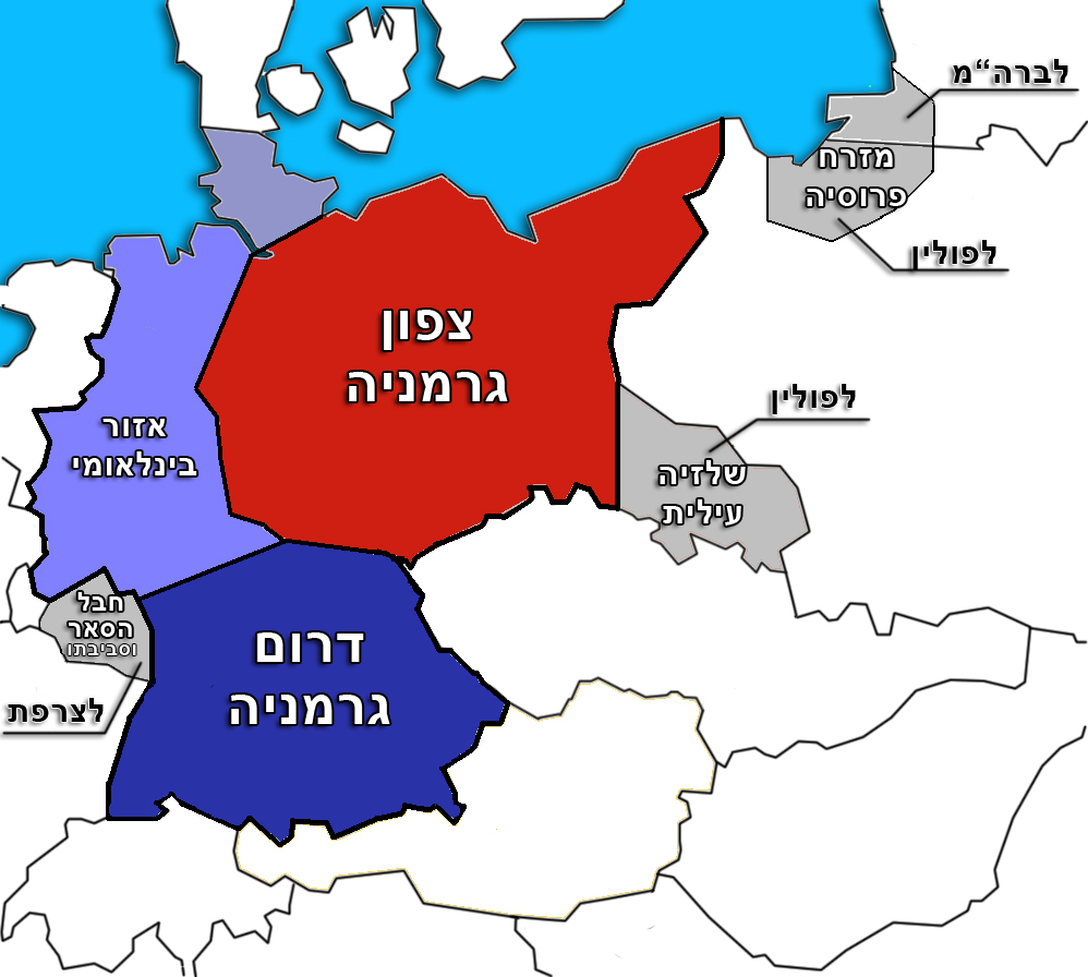 Morgenthau plan with hebrew titles